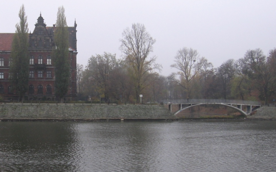 Wrocław, Poland Kładka Muzealna - pedestrian Museum Bridge near National Museum in Wrocław